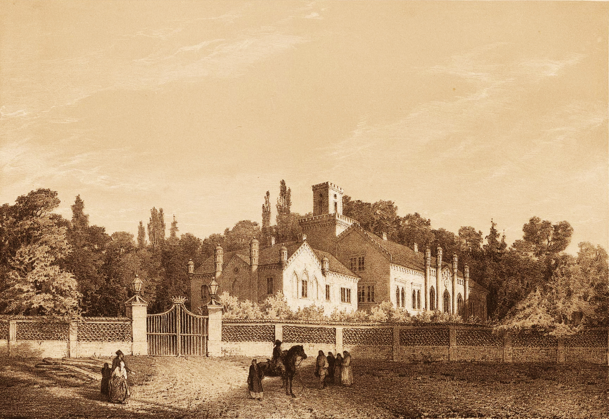 Rzewuski estate in Pohrebysche by Napoleon Orda